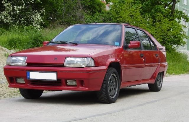 Second version of the BX 16V; a facelifted version of Marcello Gandini's original